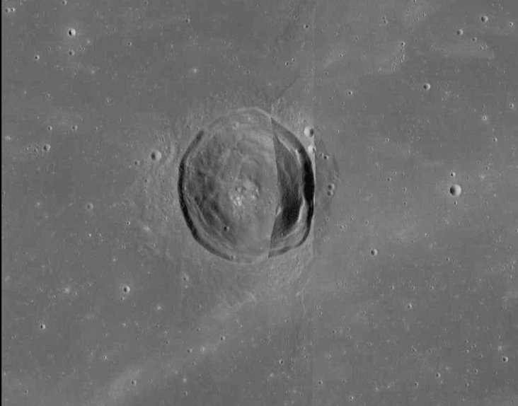 Crater Schiaparelli (detail of LRO - WAC global moon mosaic)